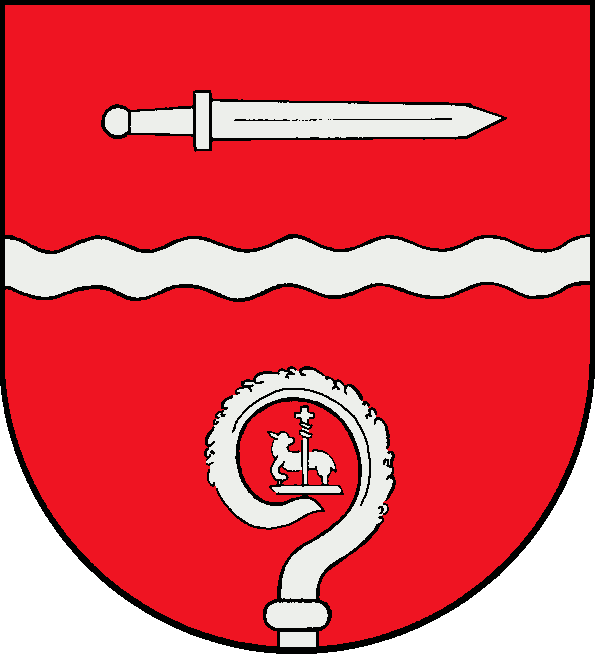 Coat of arms of the municipality Langwedel in Schleswig-Holstein, Germany.